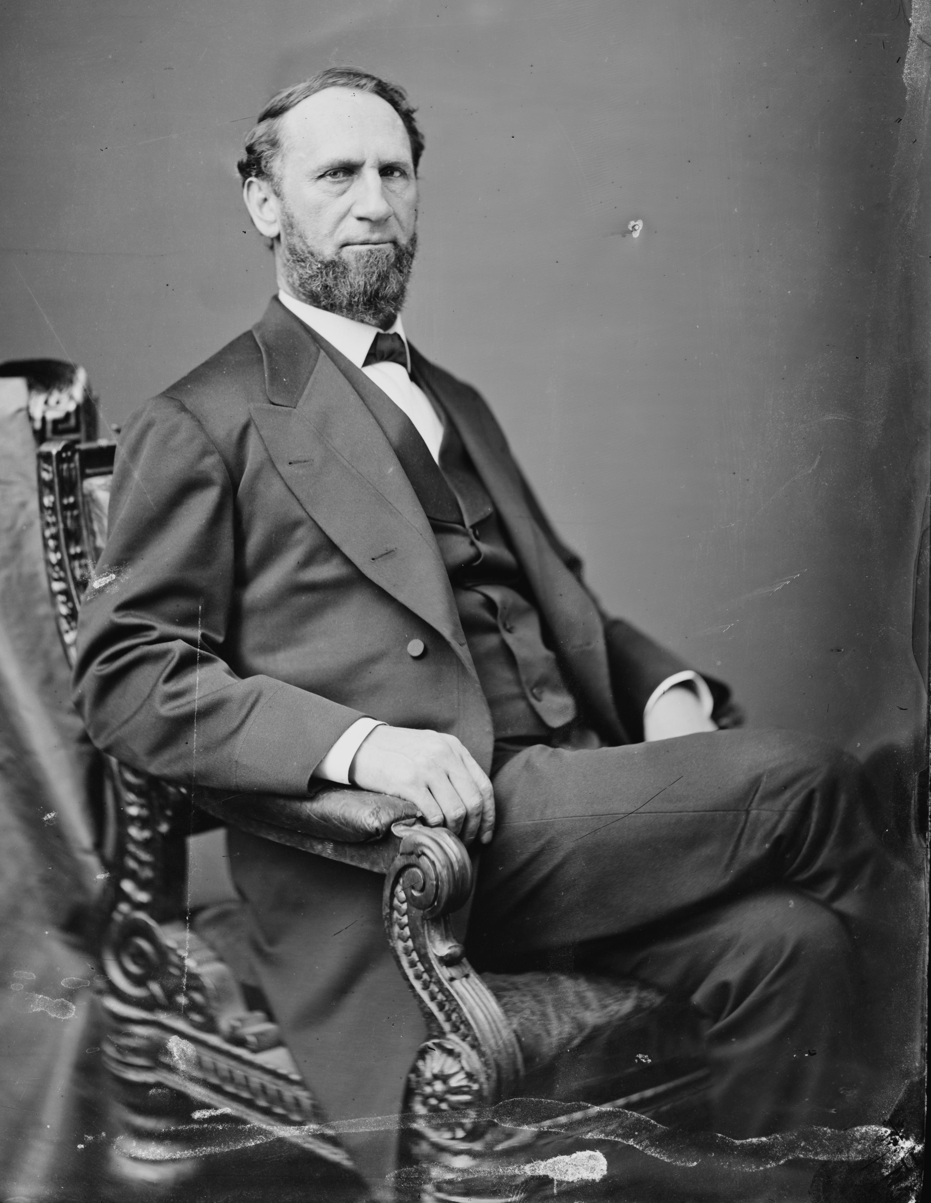 Ulysses Mercur. Library of Congress description: "Hon. Ulysses Mercur of PA"